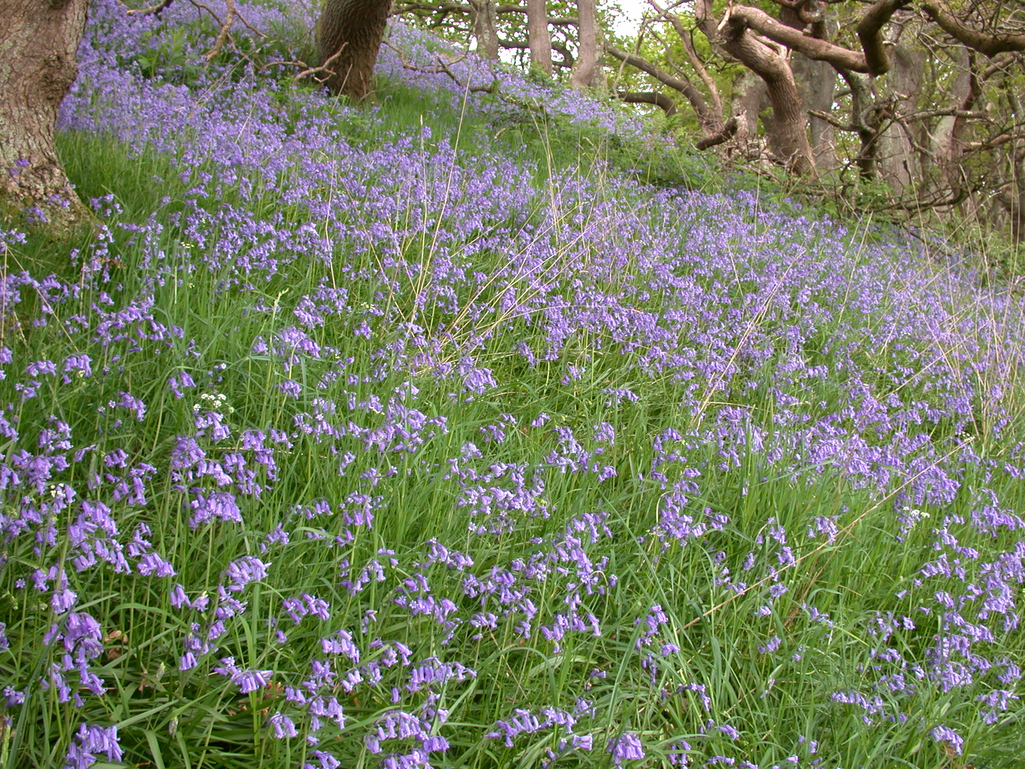 Just a few of the masses of native bluebells (Hyacinthoides non-scripta) at Ynys-hir RSPB reserve in mid May.